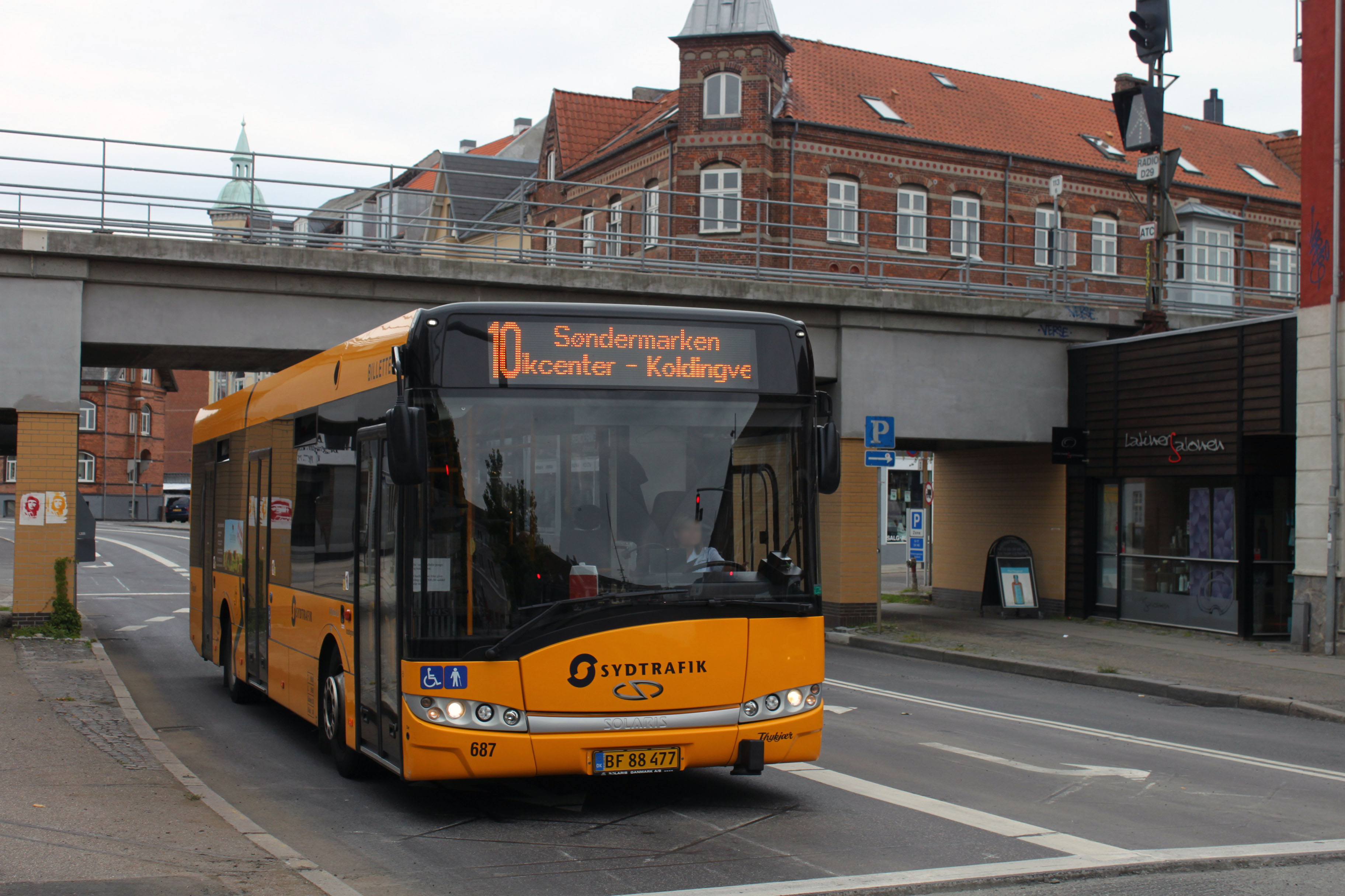 Sydtrafik Solaris Urbino 12 LE bus (BF 88 477; #687) in Vejle, Denmark. Built 2010, Bent Thykjær from Horsens operator.